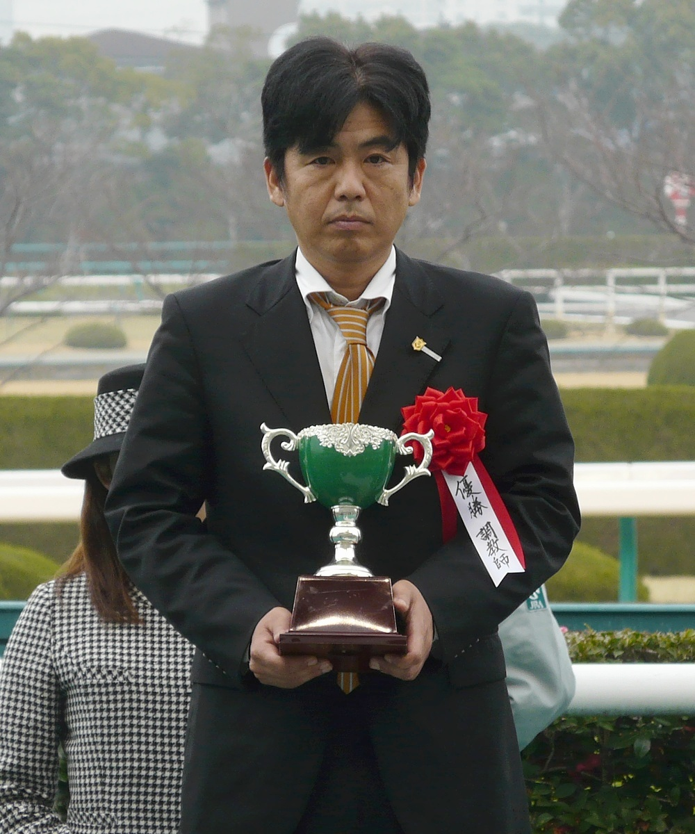 Yoshiyuki-Arakawa20120318